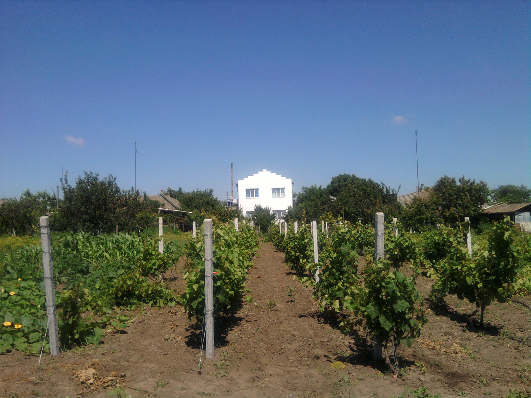 A vineyard in Kosivka, Odessa Oblast, Ukraine